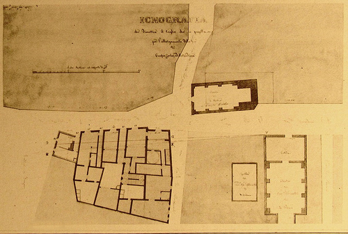 Santa Maria in Campo Carleo (above) and Sant'Urbano a Campo Carleo (direita).